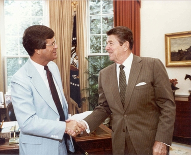 Senator Trent Lott meets with President Ronald Reagan at the White House in 1982.